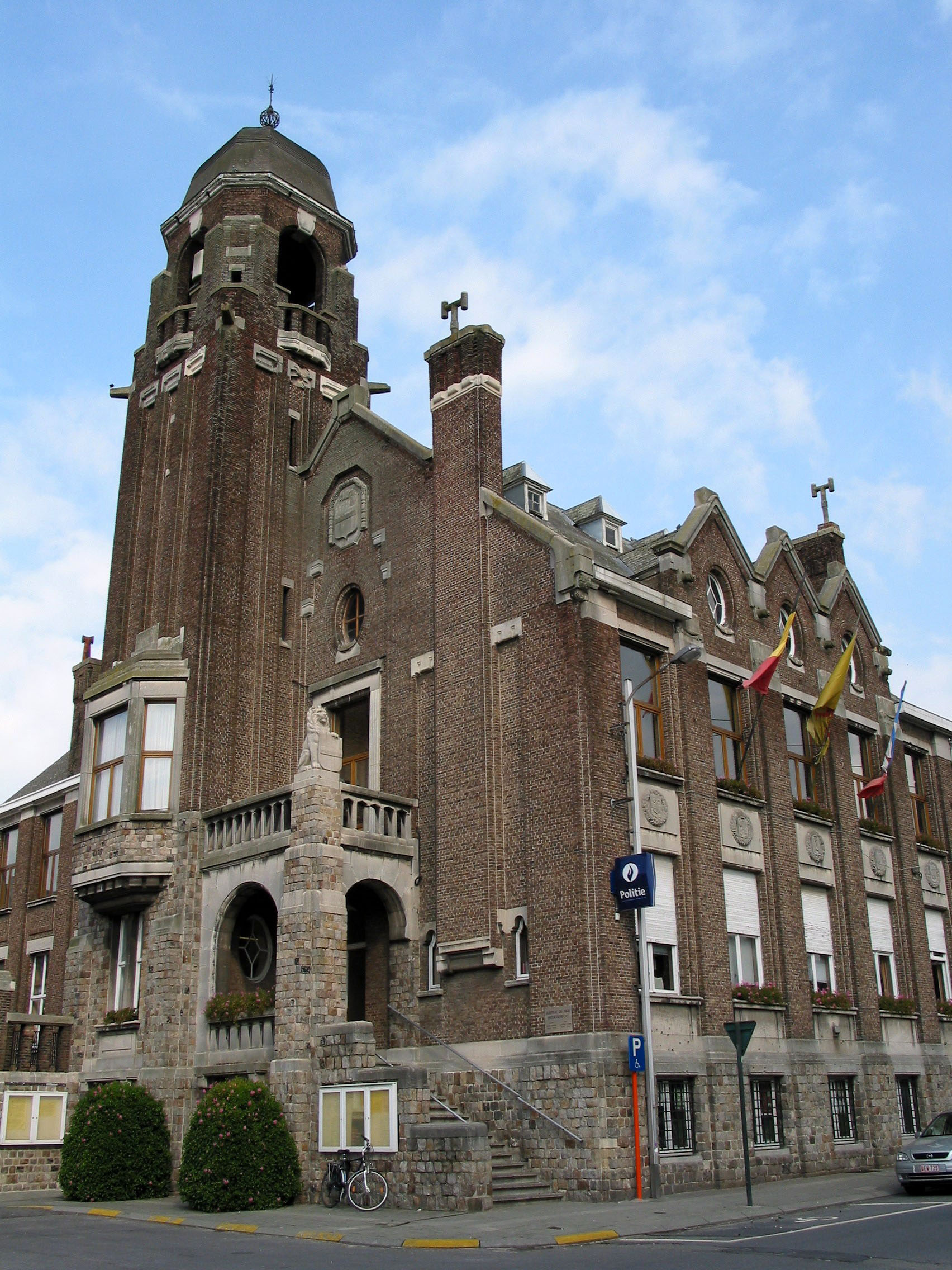 Warneton (Belgium), the town hall. (1925).